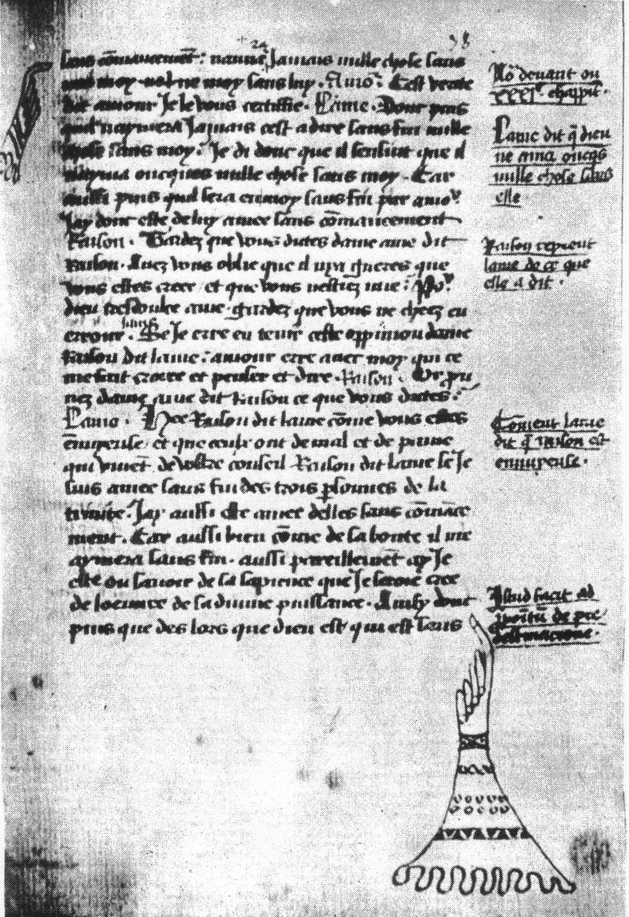 Marguerite Porete, The Mirror of Simple Souls, Chapter 35 (Dialogue of the Soul and Reason)